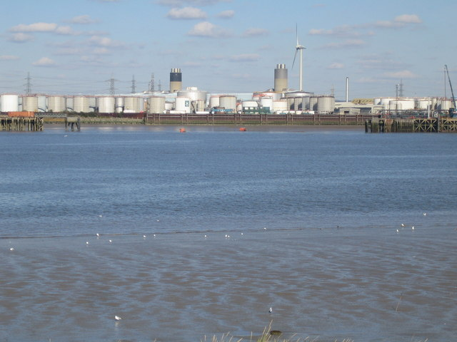 River Thames: Dagenham Docks